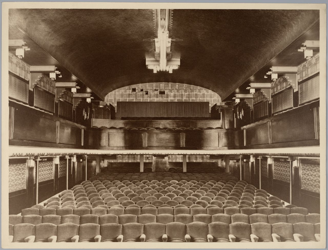 Theater Rika Hopper, Amsterdam, 1927. Architect: J. Boterenbrood. Fotograaf: onbekend. Collectie NAi / TENT_o667 URL van deze afbeelding: Meer foto's uit deze collectie kunt u bekijken in de Collectiedatabase van het NAi. Niet van alle gebouwen en interieurs zijn alle gegevens bekend. Heeft u meer informatie of weet u het adres van een gebouw? Laat dan een reactie achter (als u ingelogd bent bij Flickr) of stuur een mailtje naar: Al deze foto's zijn gemaakt in de eerste helft van de twintigste eeuw. Wij zijn benieuwd hoe deze gebouwen er vandaag de dag uitzien. Heeft u recente foto's van deze gebouwen of locaties, voeg ze dan toe als commentaar. U kunt een eigen Flickr-foto toevoegen door de URL ervan tussen vierkante haken in het commentaarveld te plakken. Als uw foto's een Creative Commons licentie hebben, nemen we ze bovendien graag op in de NAi Collectiedatabase. Rika Hopper Theatre, Amsterdam, 1927. Architect: J. Boterenbrood. Photographer: unknown. NAI Collection / TENT_o667 Persistent URL: For more photographs from this collection, please visit the NAI Collection Database You can help us gain more knowledge on the content of our collection by adding a comment with information. If you do not wish to log in, you can write an e-mail to: All these pictures are taken in the first half of the twentieth century. We are curious to learn how these buildings look like today. If you have recently taken photographs of these buildings or locations, please add them to your comment. If you'd like to include a Flickr photo, simply copy and paste its URL between square brackets in the commentary-field. Photos with a Creative Commons licence may be used to illustrate the NAi Collection Database.